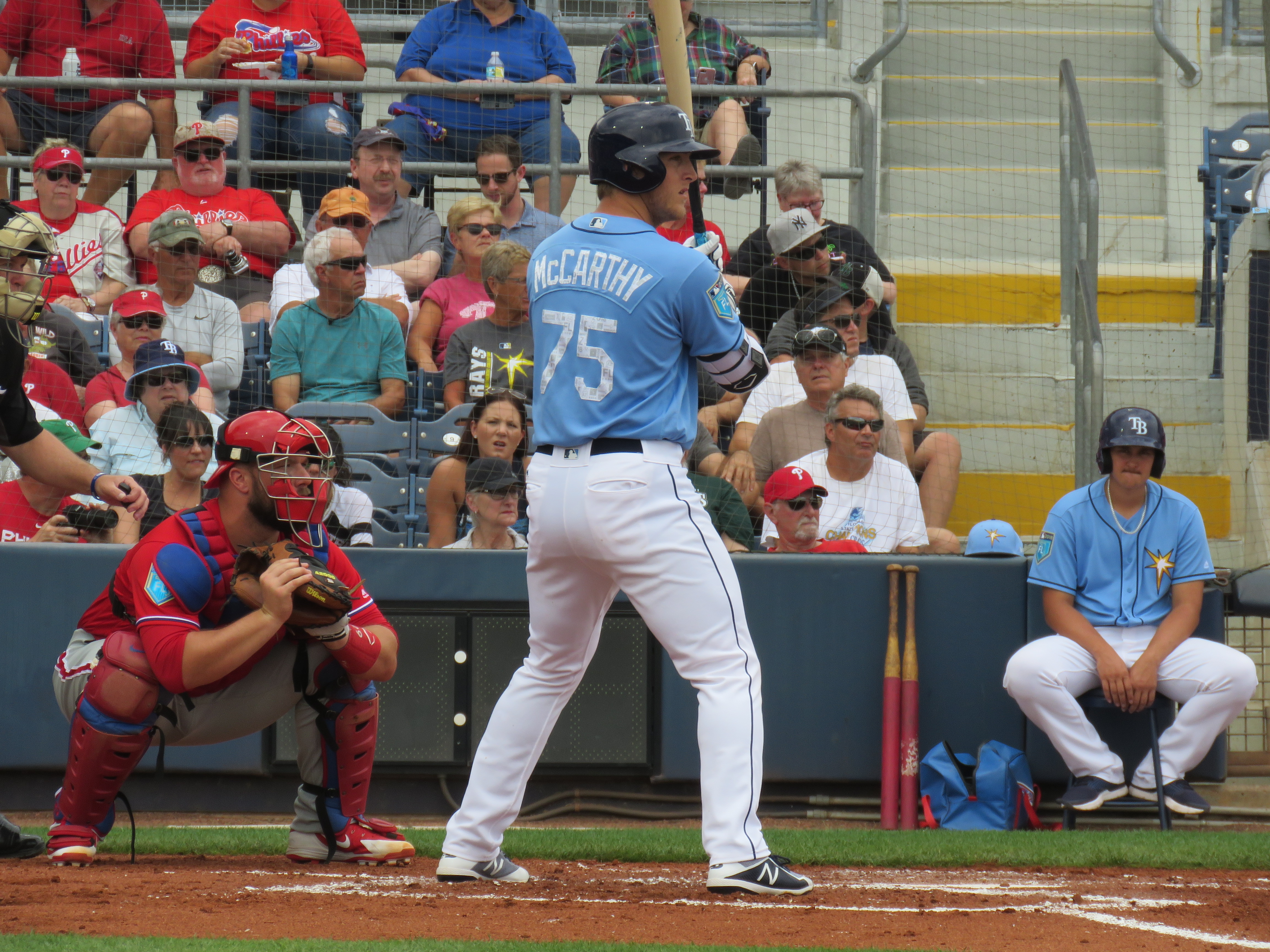 Joe McCarthy batting for the Tampa Bay Rays against the Philadelphia Phillies in Spring Training in 2018